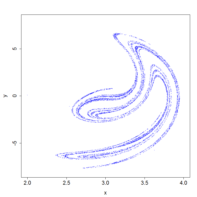 Poincare Map of the van der Pol-Duffing oscillator; dx/dt= y dy/dt= -ky-x3+B cos(2πt) with parameters k=0.1, B=12, x(0)=2.0 and y(0)=0.1. Reference Y. Ueda, Int. J. Non-Linear Mechanics, vol.20, p.481 (1985)